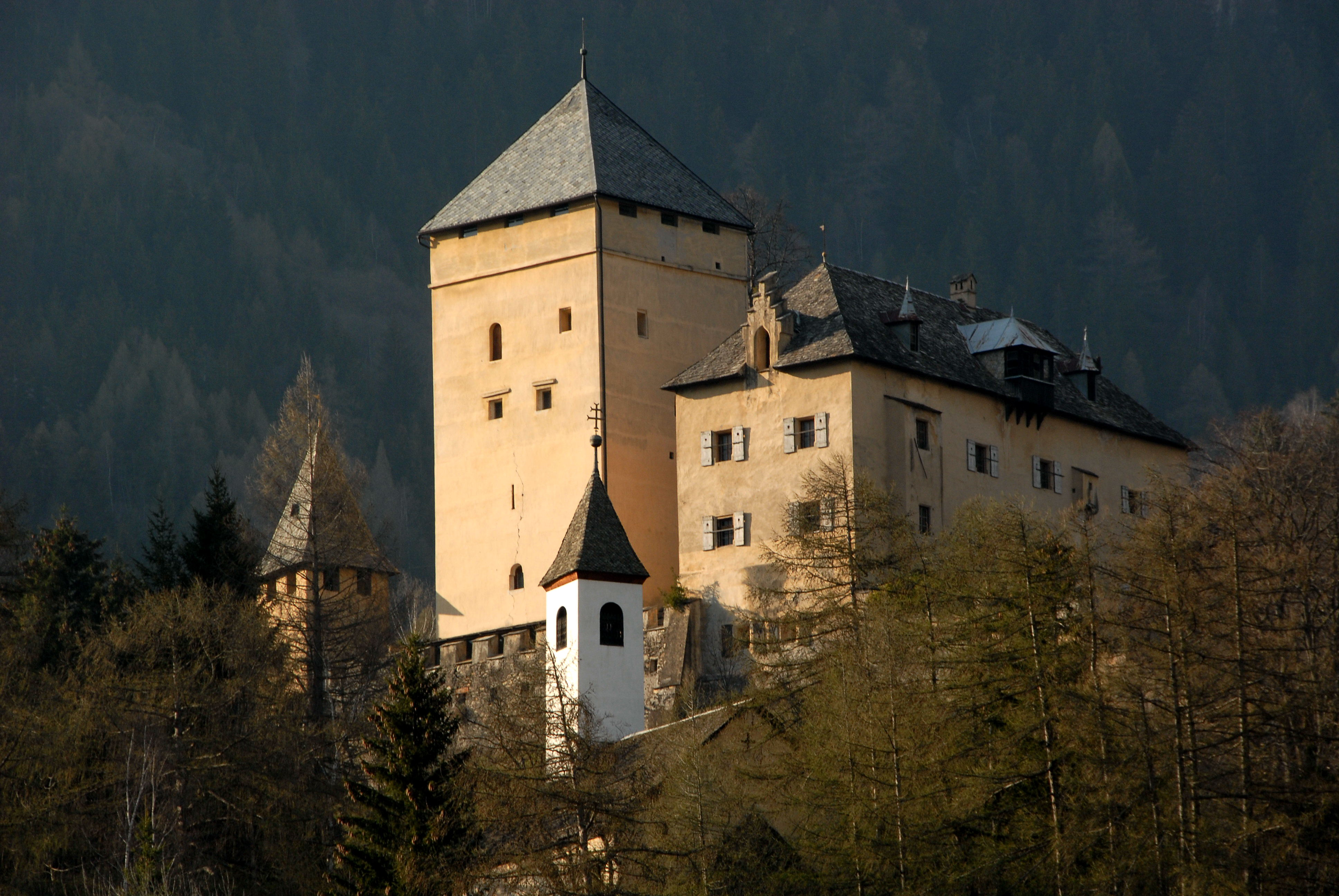 Castle Groppenstein in the municipality Obervellach, district Spittal an der Drau, Carinthia, Austria